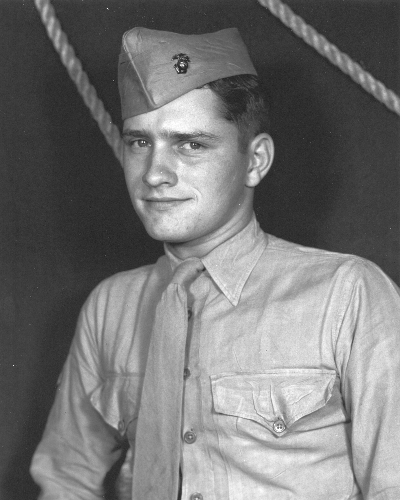 Lee H. Phillips (1930-1950), USMC. Medal of Honor recipient, killed in action during the Battle of Chosin Reservoir Author: United States Marine Corps Source: Official Marine Corps biography URL